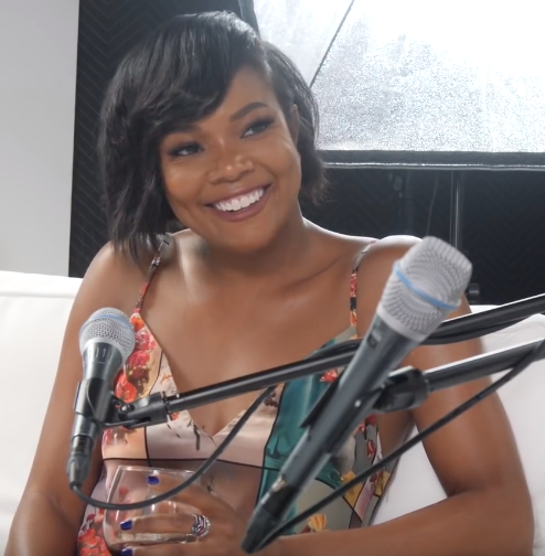 Gabrielle Union on Ashley Graham's podcast, October 2018